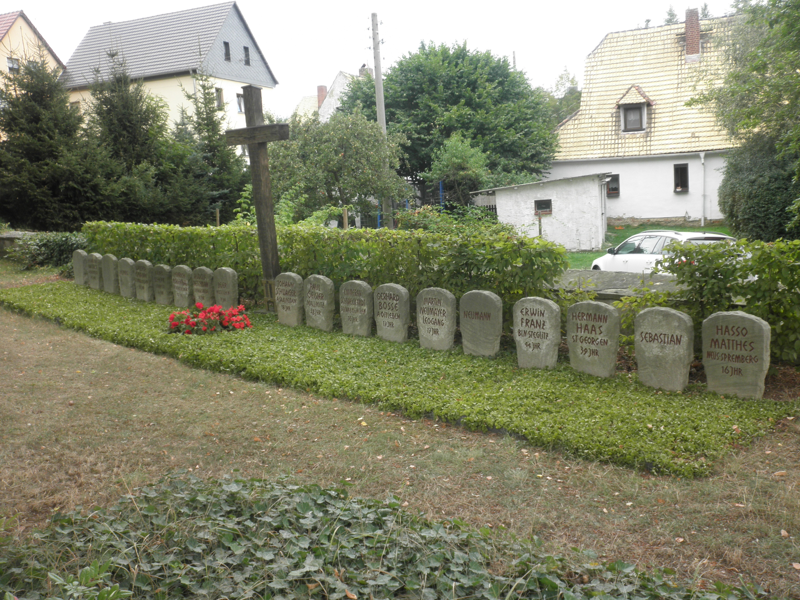 War Graves in Großröda in Landkreis Altenburger Land in Thuringia